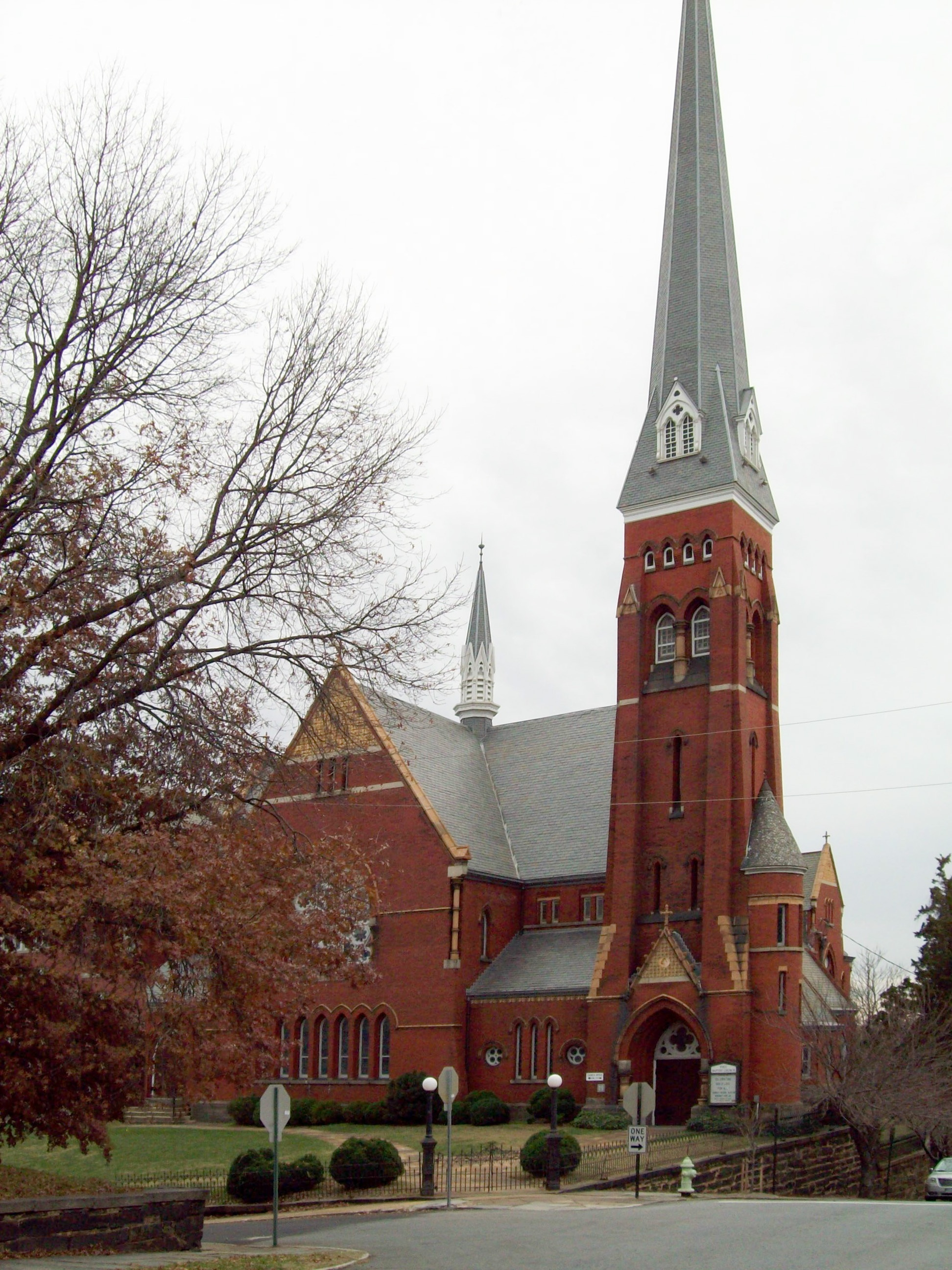 First Baptist Church, Lynchburg VA, November 2008